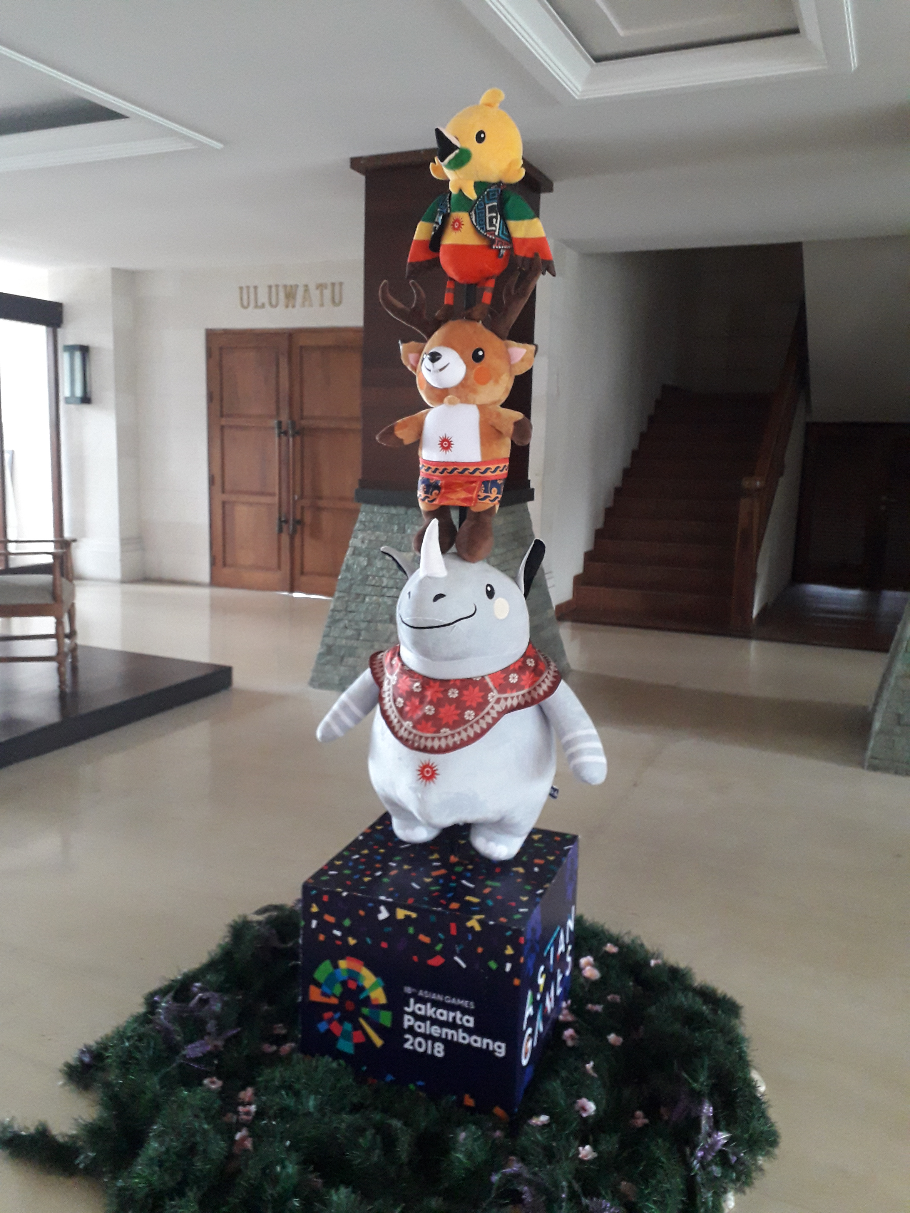 Asian Games 2018 mascot doll at The Grand Hill Resort-Hotel Puncak, Bogor, West Java. The hotel is the official temporary residence for Paragliding athletes and officials. From top: Bhin-Bhin (Cendrawasih bird), Atung (Bawean deer) and Kaka (Rhinoceros)